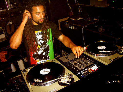 Mala Digital Mystikz , Live in New York